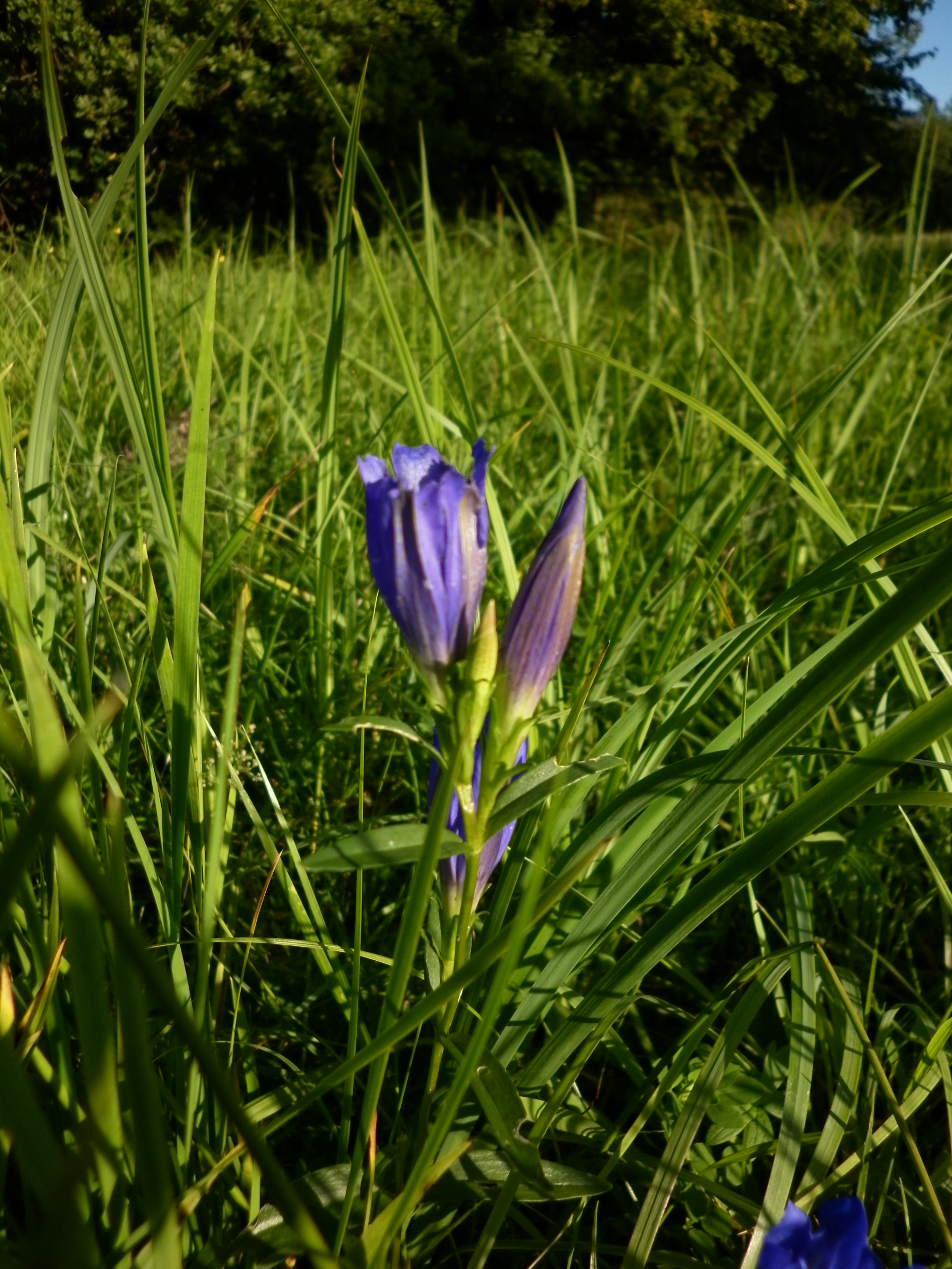 Nature reserve "Mazurovy chalupy" in Pardubice District, Czech Republic. Wet meadows and extensive pastures with rare plant and animal species.